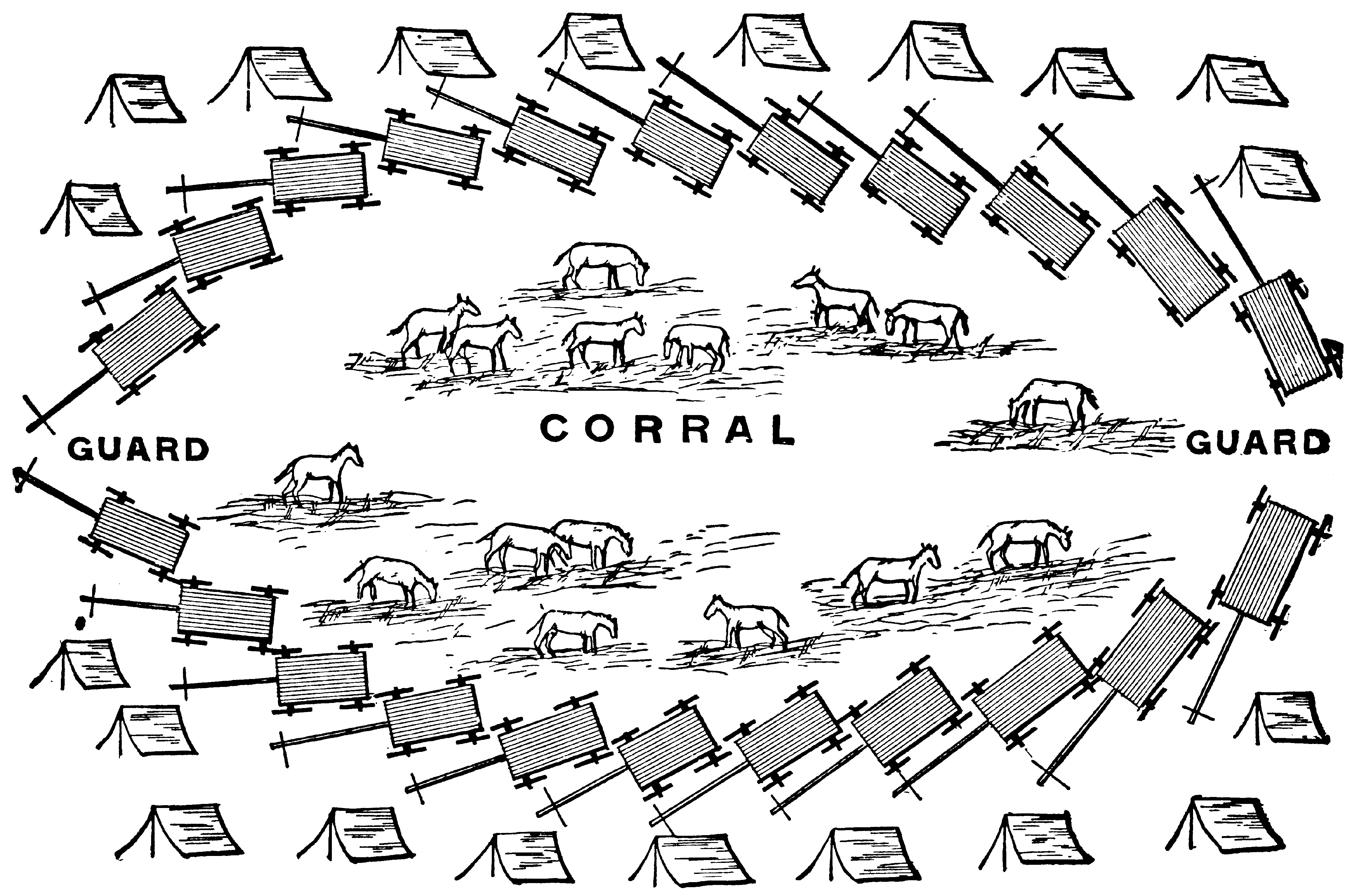 Corral of Wagons.